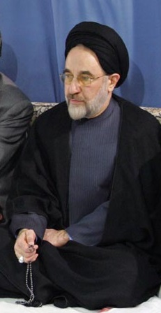 Authorities and Officials meet with Supreme Leader of Iran-October 30, 2005 (Cropped on Khatami)